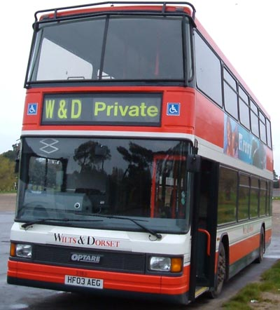 Wilts & Dorset's 3185 (HF03 AEG), a DAF DB250/Optare Spectra laying over outside the grounds of A.F.C. Bournemouth.